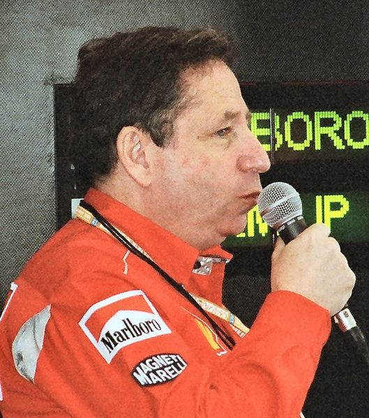 first uploaded by User:PaddyBriggs Source:en:Image:Jean Todt.jpg